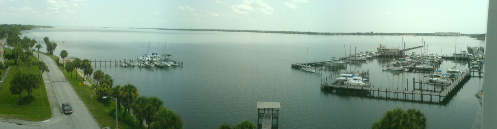 Panoramic of the Indian river from Cocoa, Brevard, Florida.